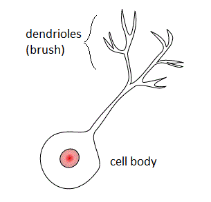 Diagram of a unipolar brush cell